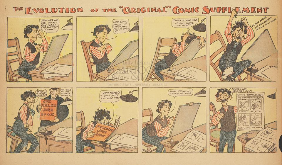 Comic Strip from St. Louis newspaper 1901